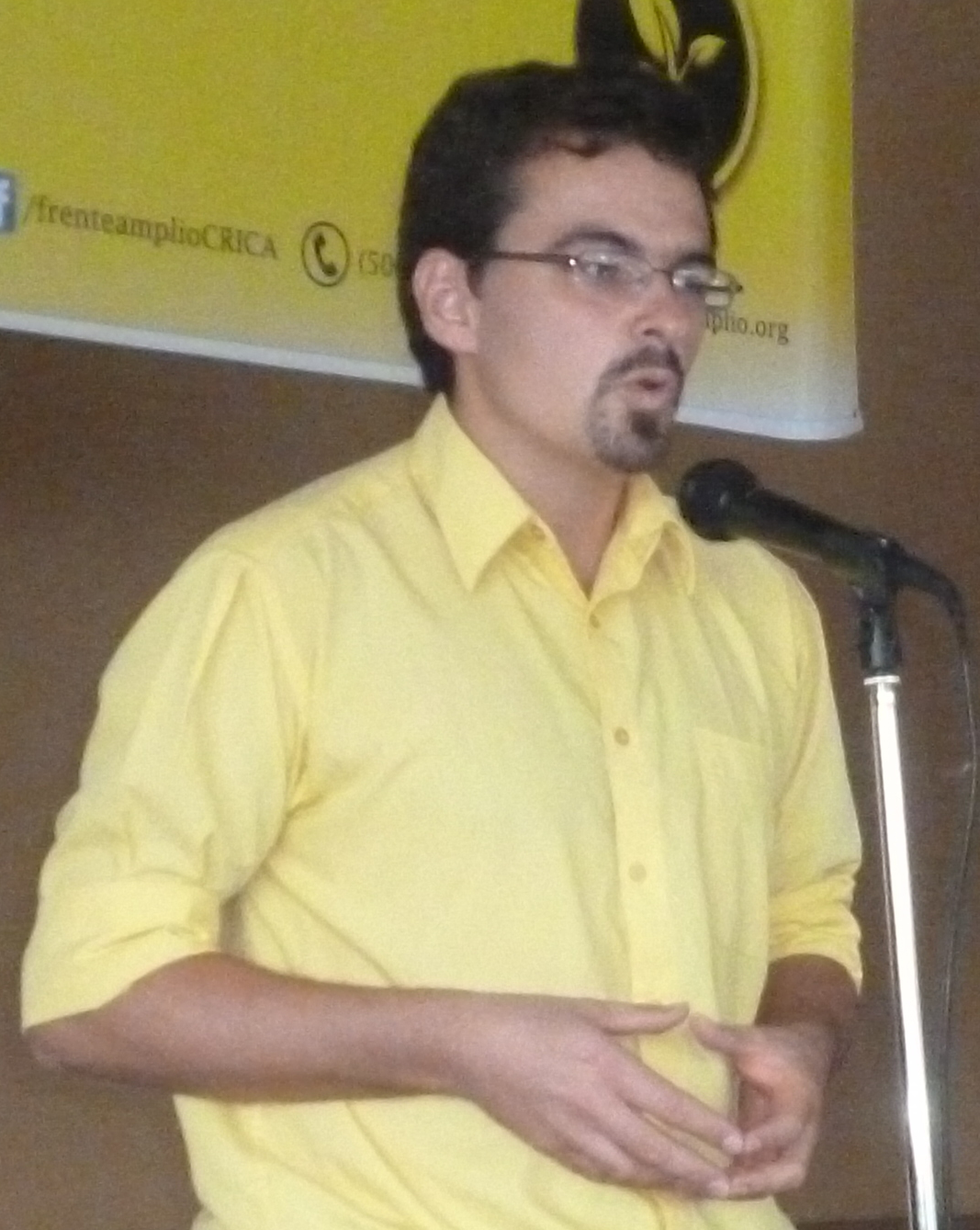 José María Villalta at the Costa Rican Broad Front's provincial assembly in Quesada (cropped)